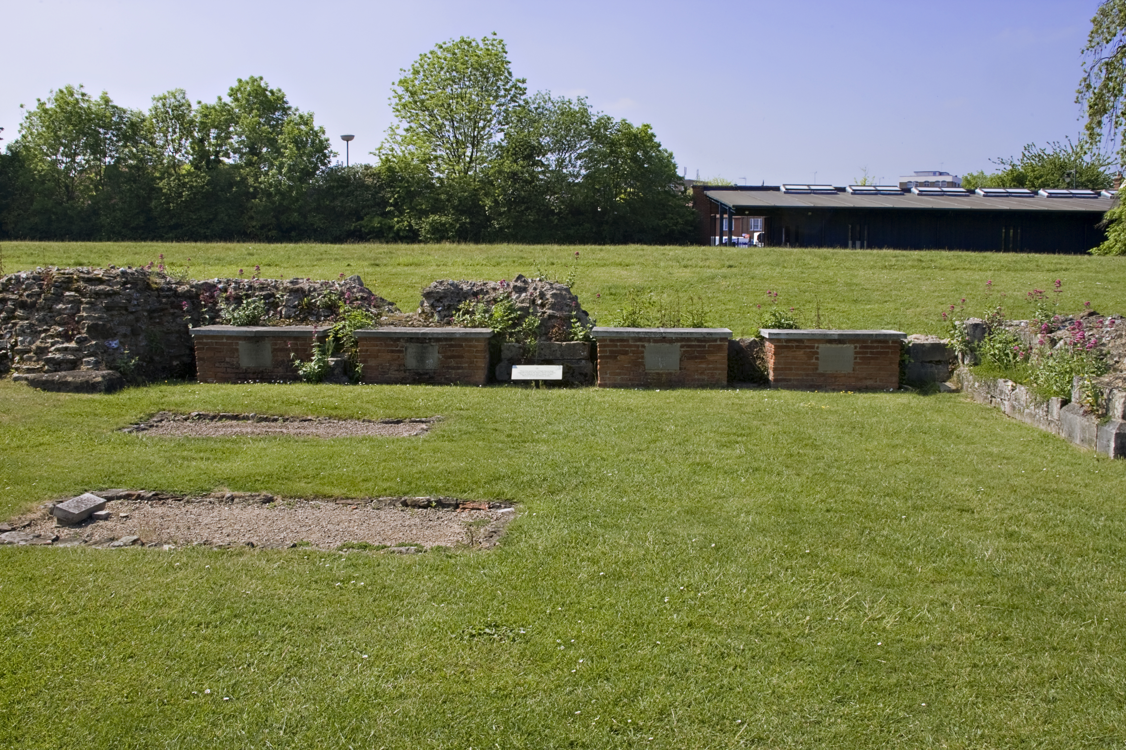 Site of four Anglo-Saxon royal graves at St Augustine's Abbey, Canterbury. From left to right they are Edbald (also known as Eadbald of Kent) d. 640, Lothaire (also known as Hlothhere of Kent) d. 685, Wintred (also known as Wihtred of Kent) d. 725, Mulus (also known as Mul of Kent) d. 686.